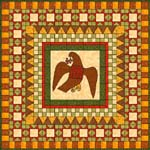 Textiles - illustration of a medallion style quilt